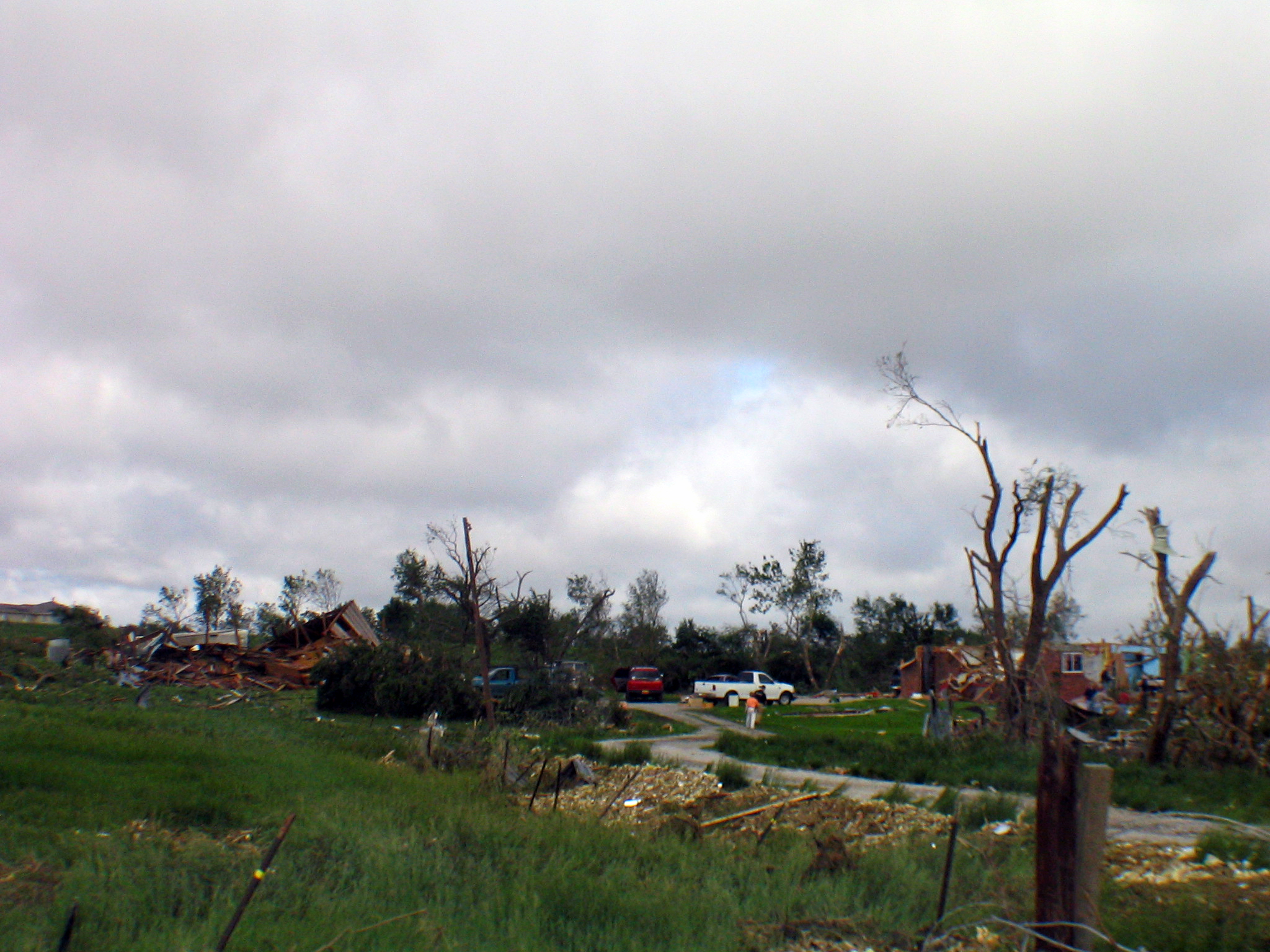 Photo of damage from the 2004 Hallam, Nebraska tornado in Lancaster County. Photo taken just north of Norris School District 160; south of Hickman - on S. 68th Street, between Princeton & Olive Creek Roads. Photo is taken looking nearly northwest. It appears that in present day (2016), the damaged homes in this photo no longer exist.